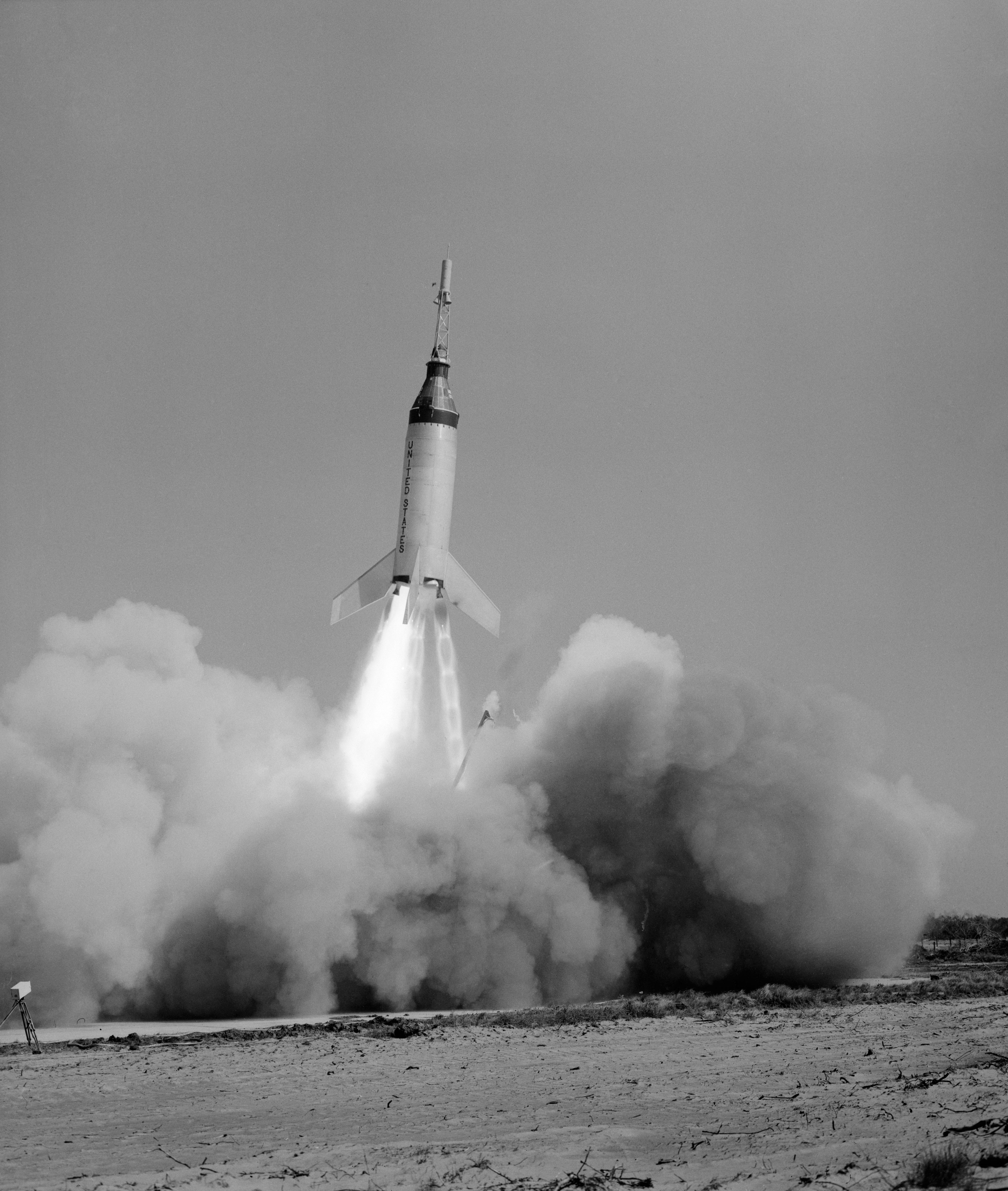 View of the launch of the Little Joe-5B spacecraft from Wallops Island on April 28, 1961.